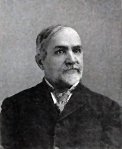 Henry Gray Turner, US Representative from Georgia